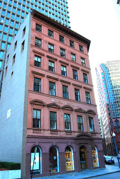 Merchants Bank — in Providence, Rhode Island.